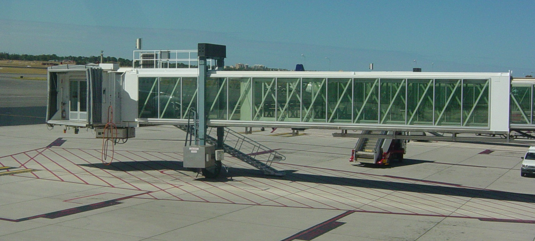 Jet bridge